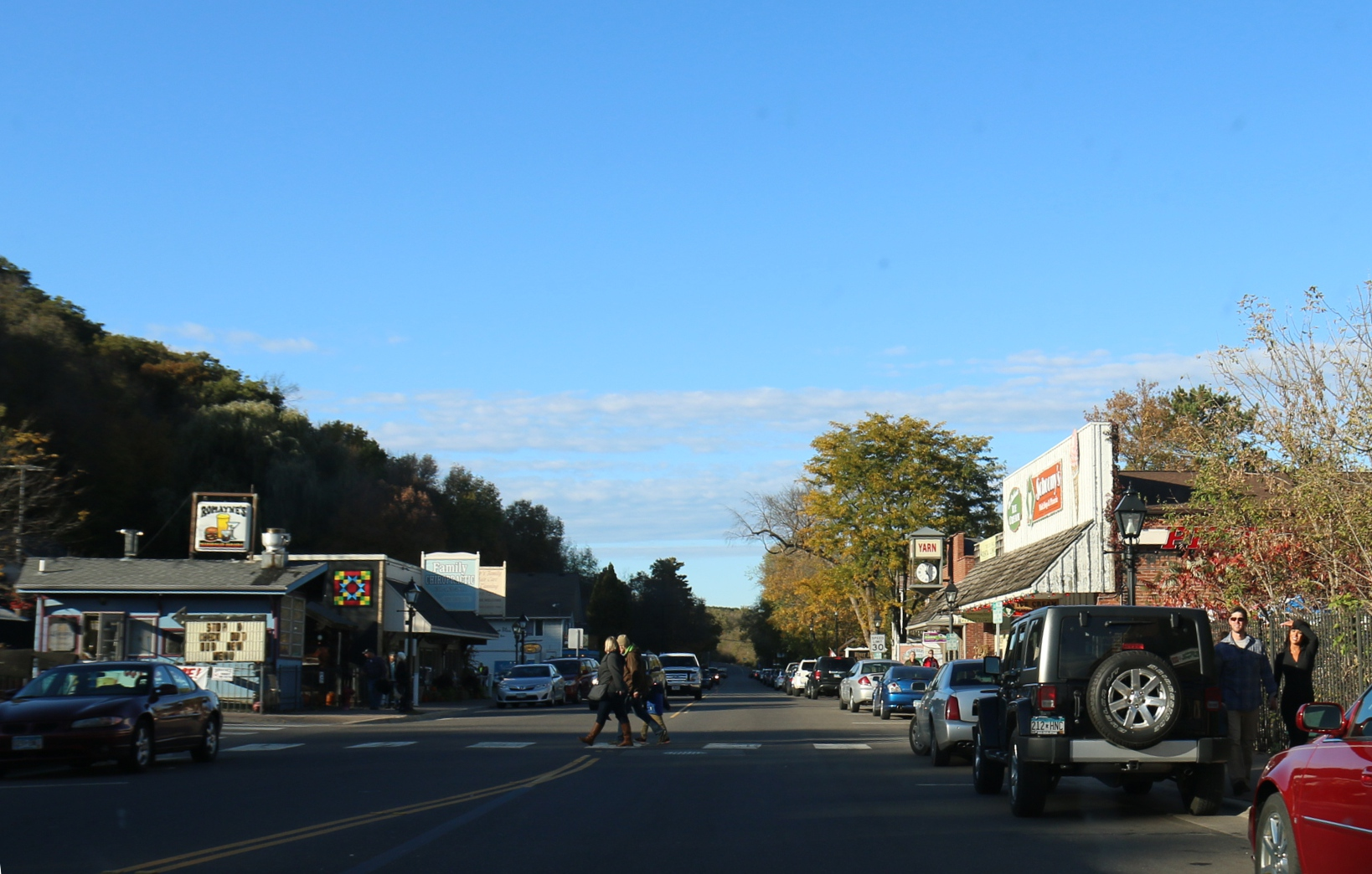 Downtown Taylors Falls, Minnesota on MN95 on the St. Croix Scenic Byway